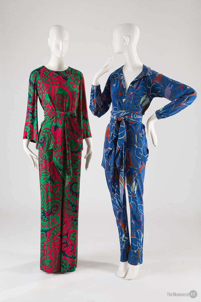 (left) Saint Laurent Rive Gauche, pajama set, printed silk crepe, c. 1970, France, museum purchase, P89.55.4 (right) Halston, pajama set, printed crepe de Chine, c.1976, USA, gift of Ms. Gayle Osman, 91.41.12 YSL + Halston: Fashioning the 70s Photograph by Eileen Costa © The Museum at FIT.